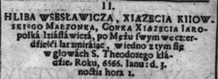 Excerpt from book of Kalnofoisky «Teraturgema», 1638